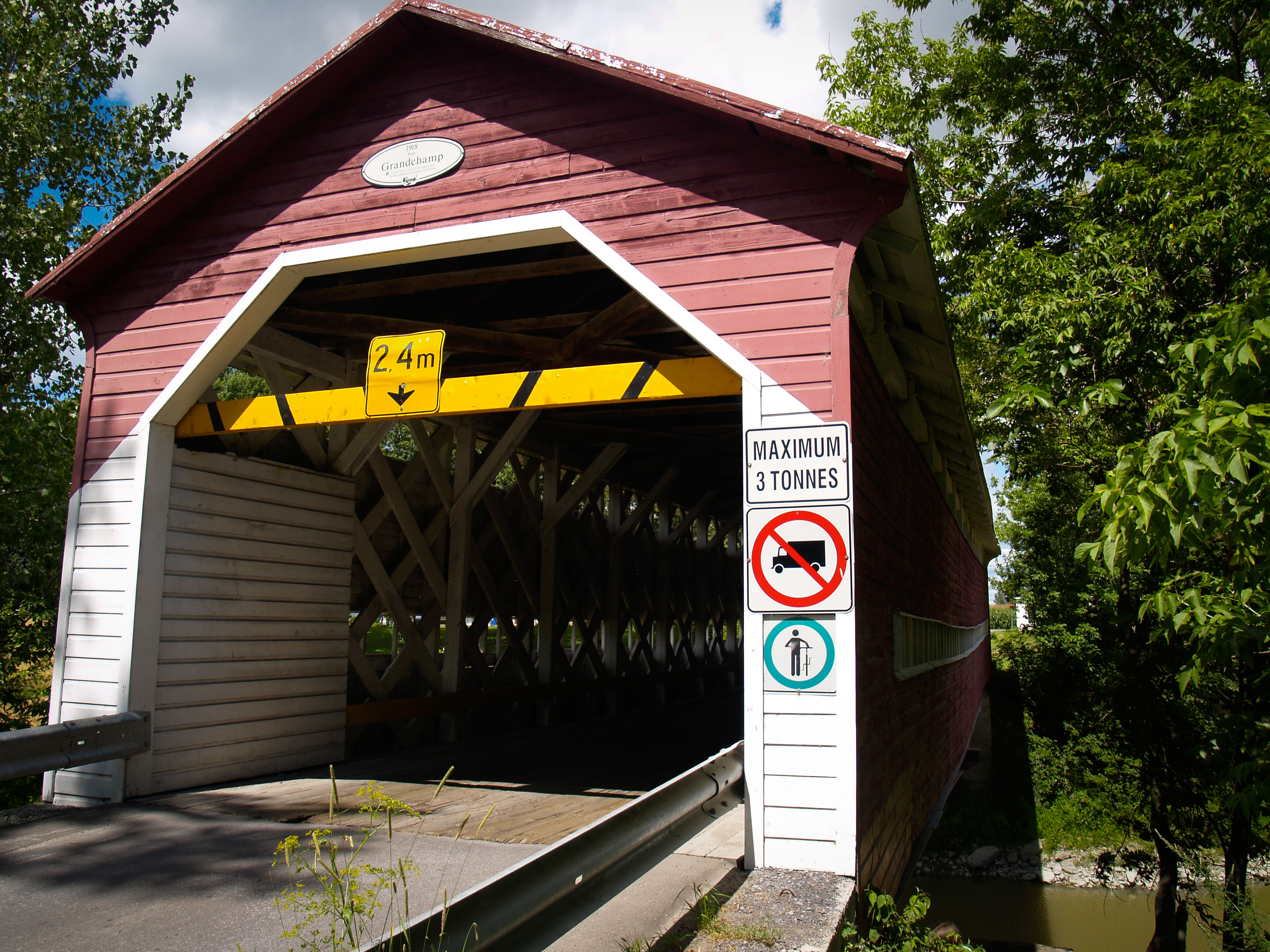 Le pont couvert de Arthur Cornellier dit Grandchamp, Berthierville, Québec